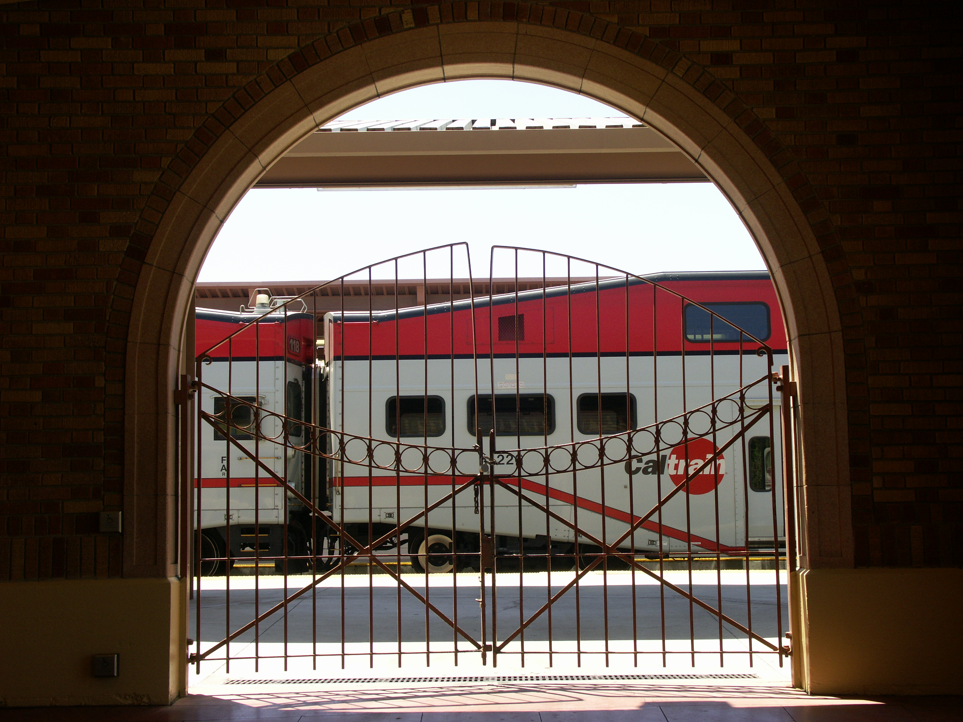 Caltrain Baby Bullet from side view.